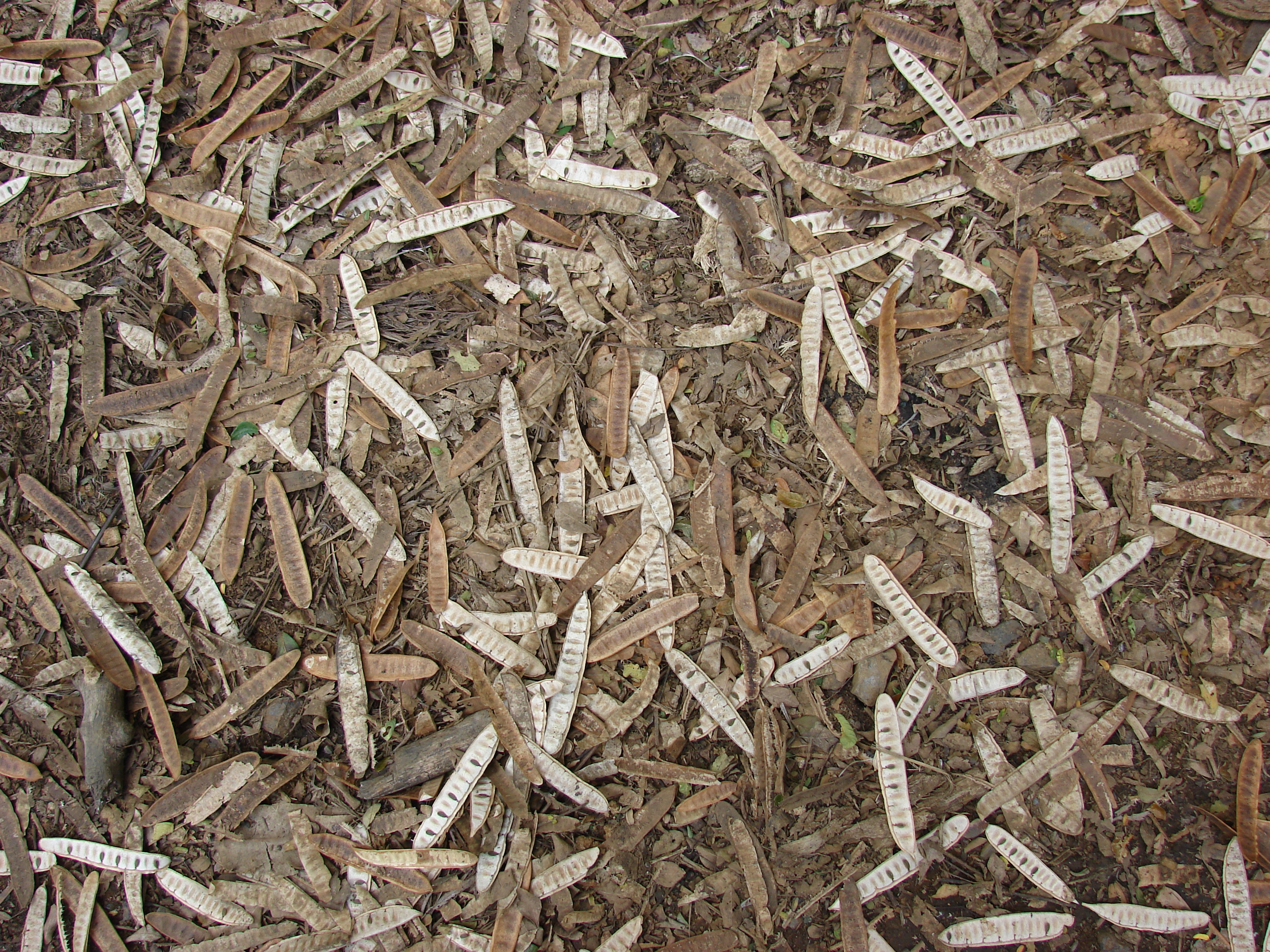 Falcataria moluccana (seedpods on ground). Location: Maui, Peahi reservoir Haiku